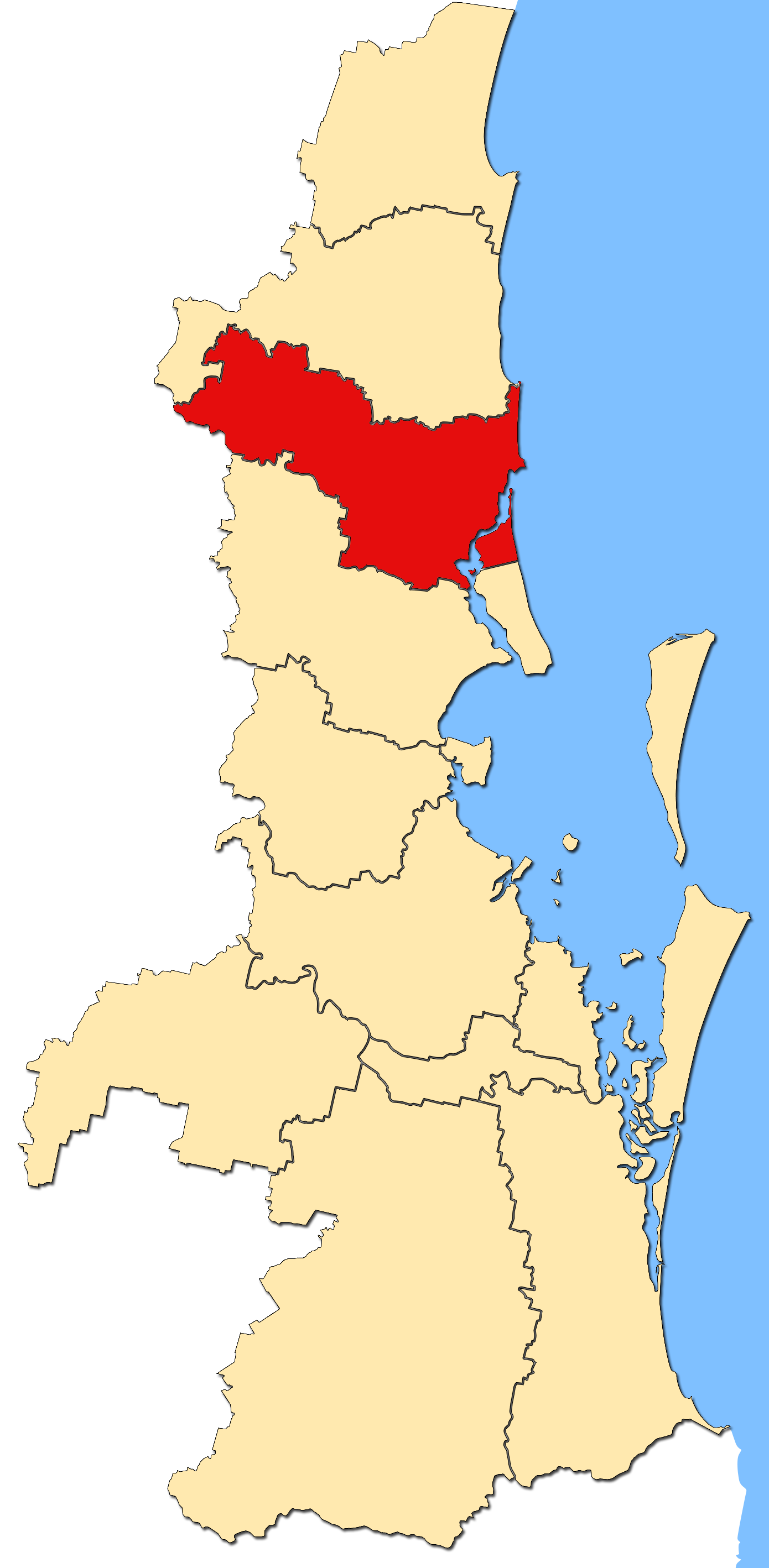 Map of South East Queensland urban local government areas, with Caloundra City highlighted. Created by MagpieShooter.